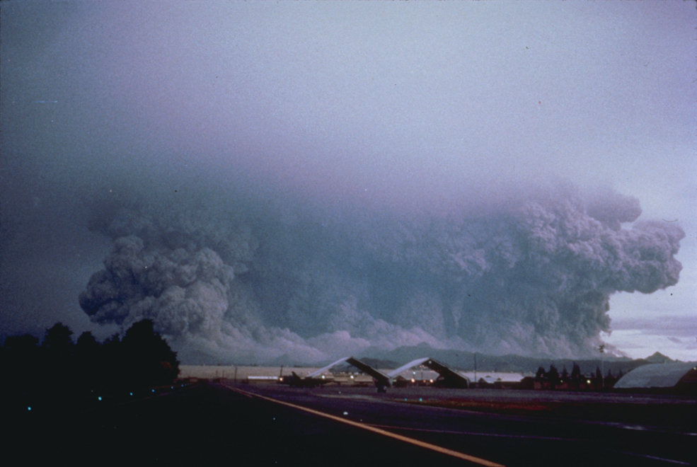 View to the west from Clark Air Base of the major eruption of Pinatubo on June 15, 1991. The June 15-16 climatic phase lasted more than fifteen hours, sent tephra 30-40 km into the atmosphere, generated voluminous pyroclastic flows, and left a caldera in the former summit region. Later dubbed Black Saturday, the day of darkness stretched for 36 hours. The day included a black blizzard of coarse sand, more than 50 earthquakes, volcanic thunder, brilliant lightning, and orange fireballs.